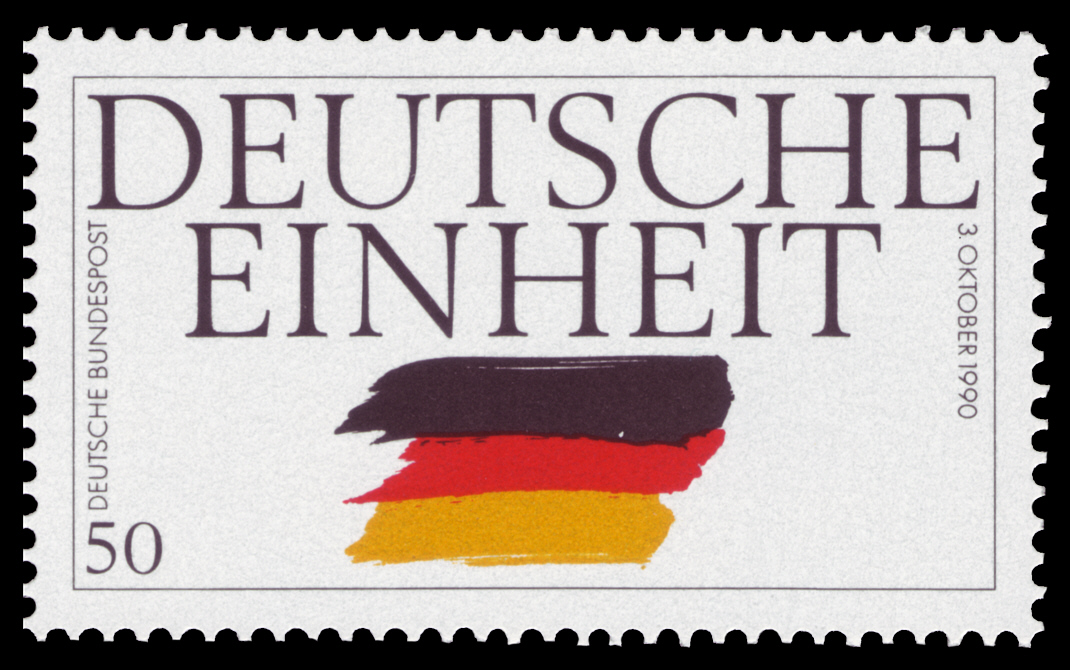 stamp for the German reunification on October 3rd, 1990 Ausgabepreis: 50 Pfennig First Day of Issue / Erstausgabetag: 3. Oktober 1990 Michel-Katalog-Nr: 1477 Designer: Runge